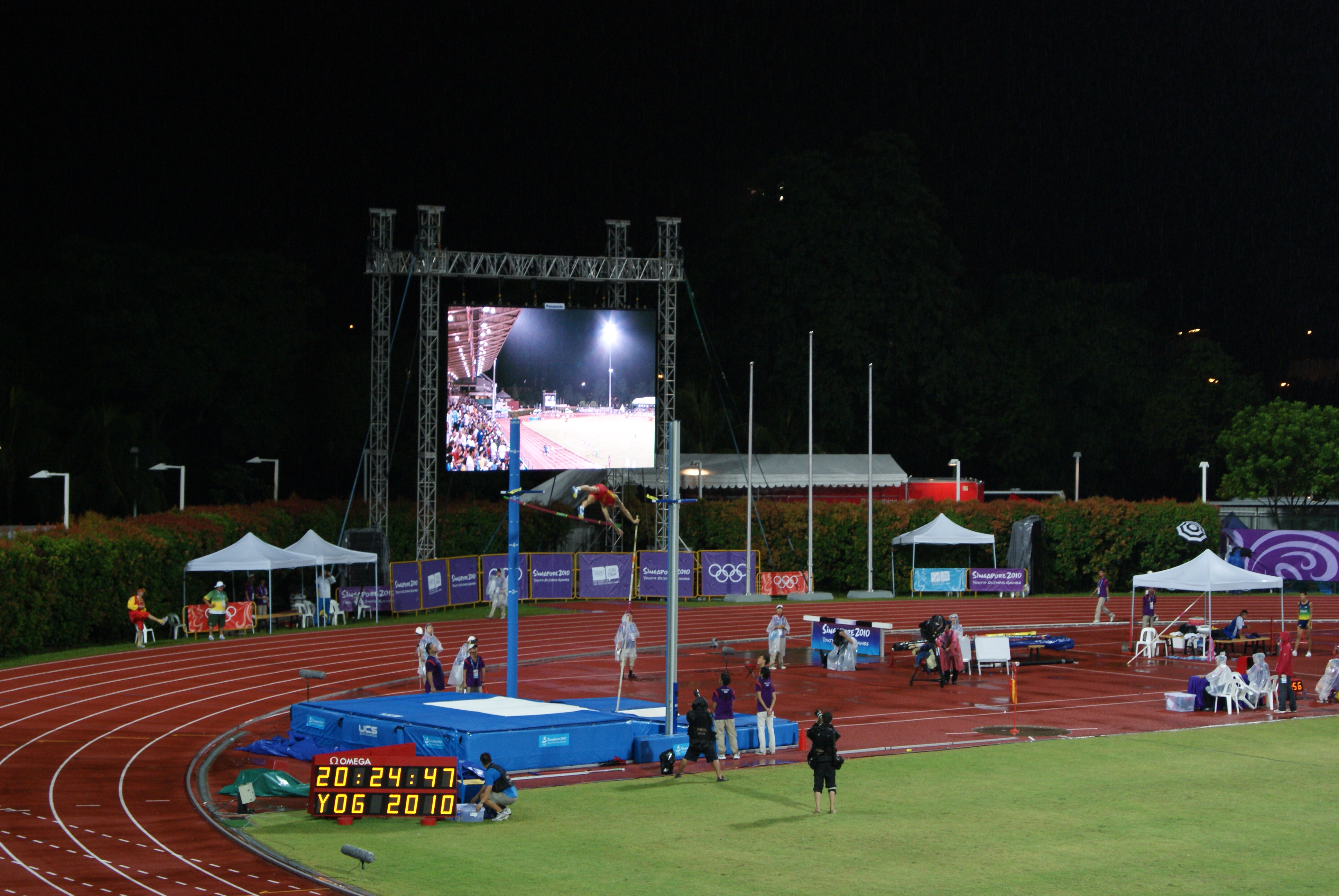 Athletics at the 2010 Summer Youth Olympics, held at Bishan Stadium, Singapore.